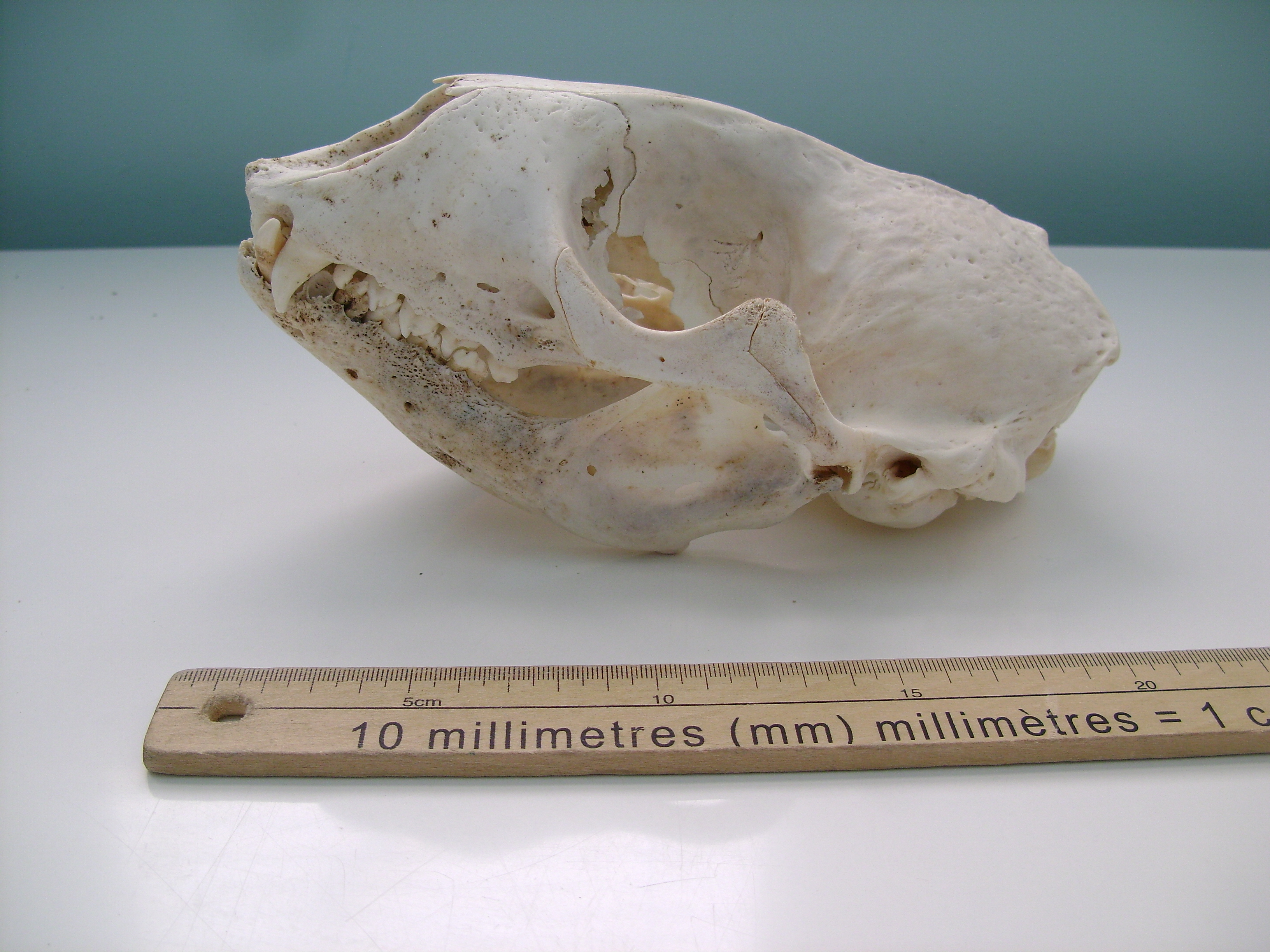 Harbor seal (Phoca vitulina) skull exposed at the Station exploratoire du Saint-Laurent, in Rivière-du-Loup, province of Québec